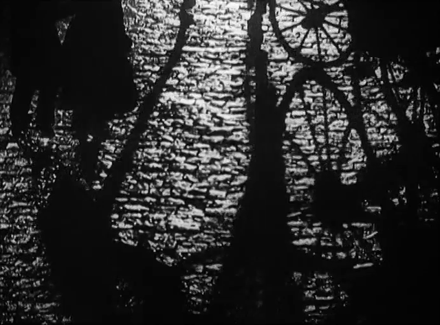 A still from Kozintsev's & Trauberg's The New Babylon.